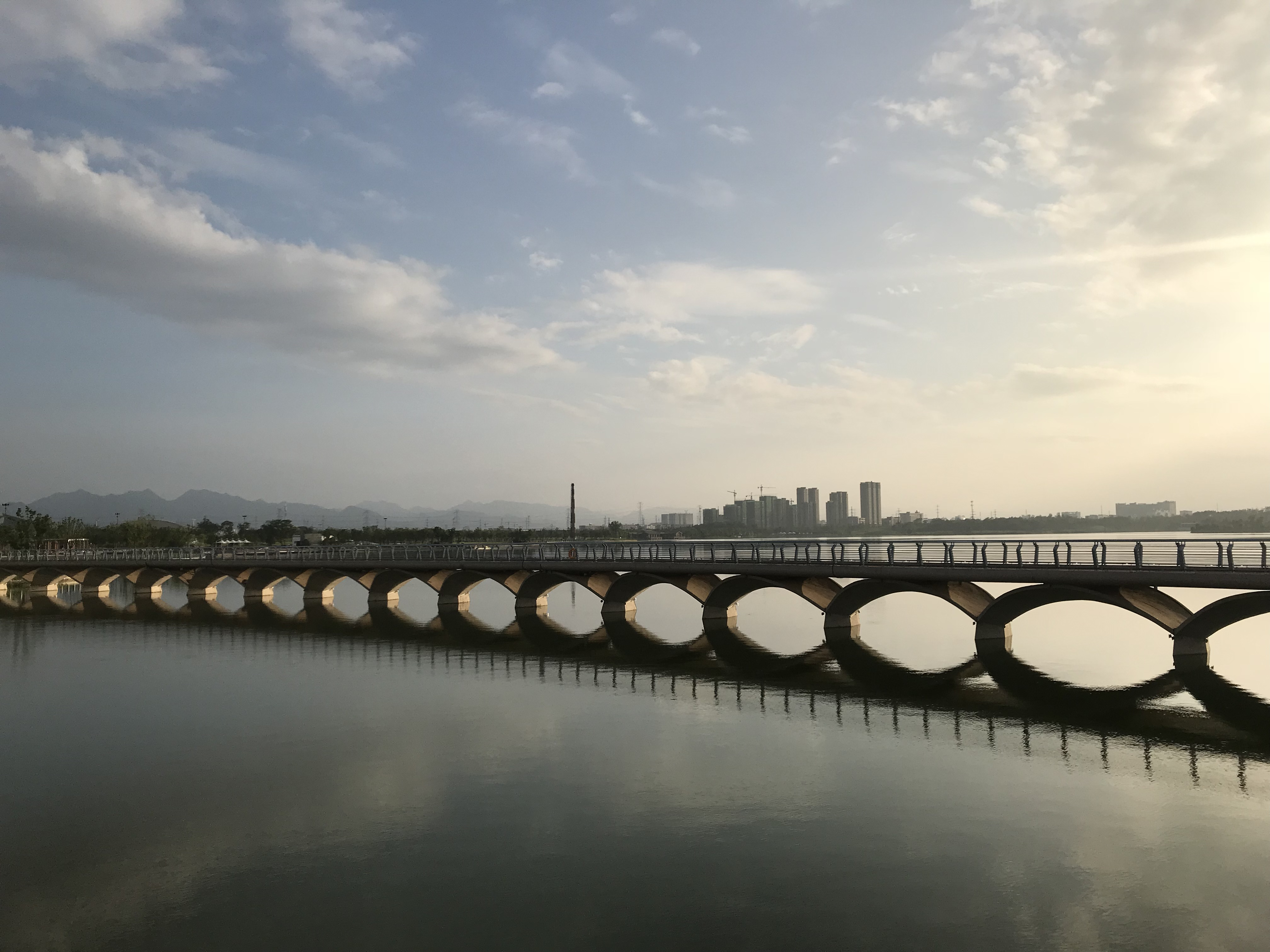 201805 Huhaitang Lake